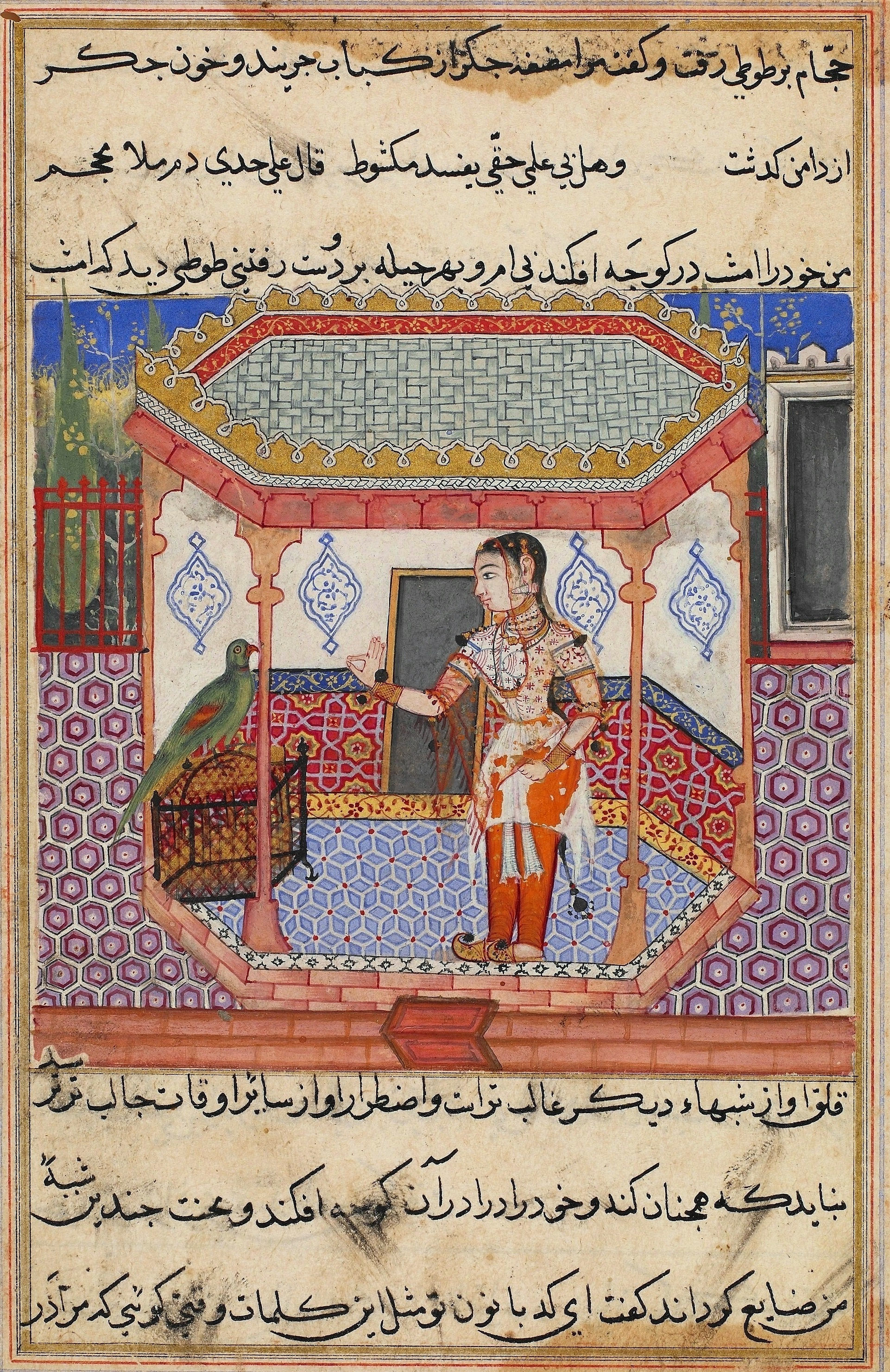 Parrot addressing Khojasta in Tutinama (Tales of a parrot), commisioned by Akbar, Mughal dynasty, c1556-1565. Reign of Emperor Akbar, India. Opaque watercolor and gold on paper.